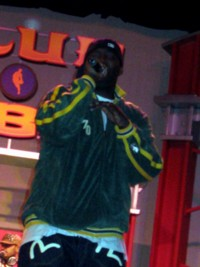 Rapper Erick Sermon performing during the 2004 NBA All-Star Jam Session at the Los Angeles Convention Center. The photograph was taken with a Canon PowerShot A70 camera and edited using ArcSoft PhotoStudio 5.5